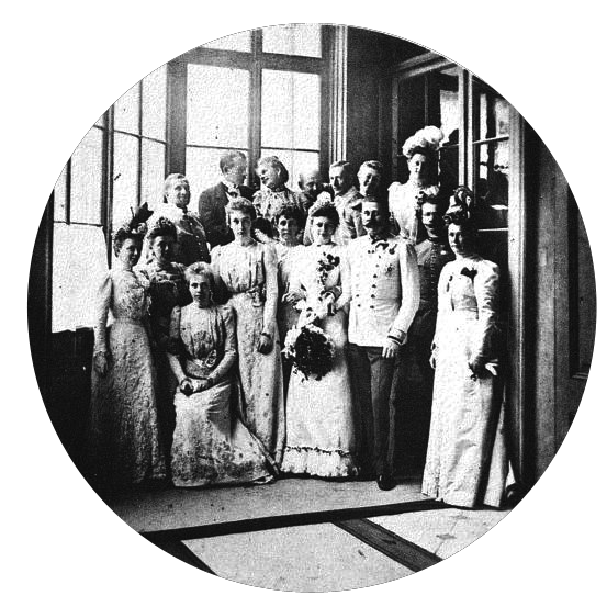 Wedding picture of Archduke Franz Ferdinand of Austria and Countess Sophie Chotek, in the intimate circle of the Chotek family. Taken on July 1, 1900 in Reichsstadt.